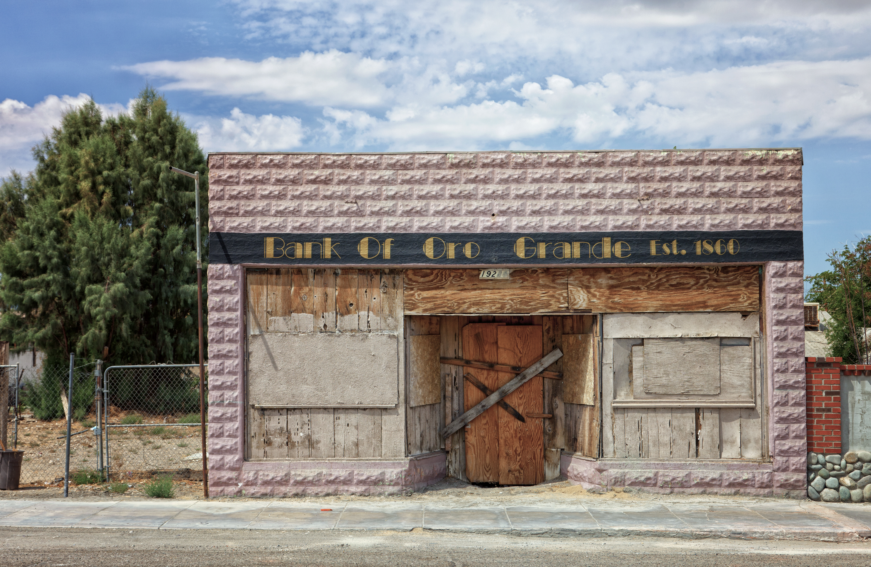 The Bank of Oro Grande - Established 1860. Oro Grande, California.